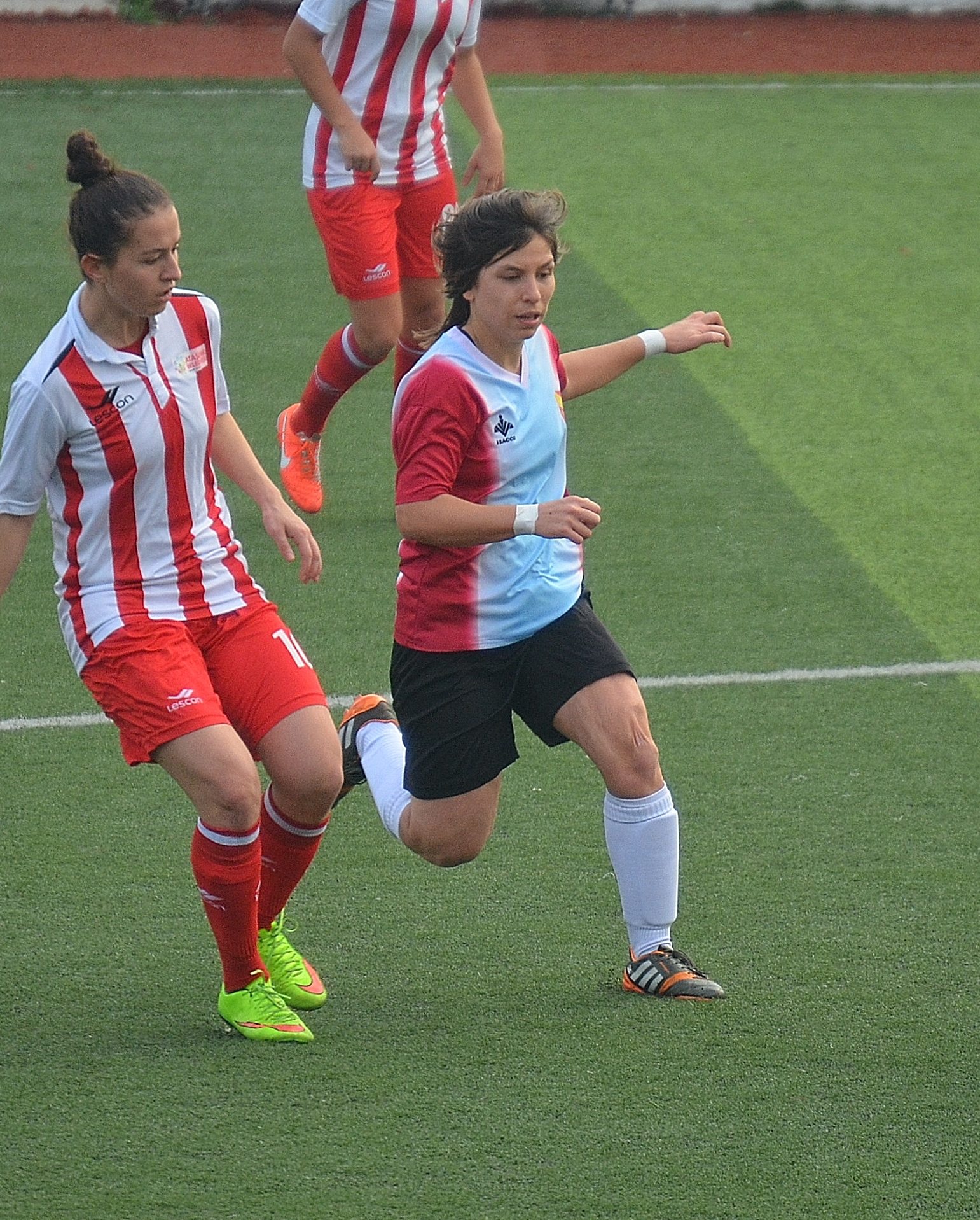 Fatoş Yıldırım playing for Trabzon İdmanocağı (women) in the away match against Ataşehir Belediyespor (2014-15 season)